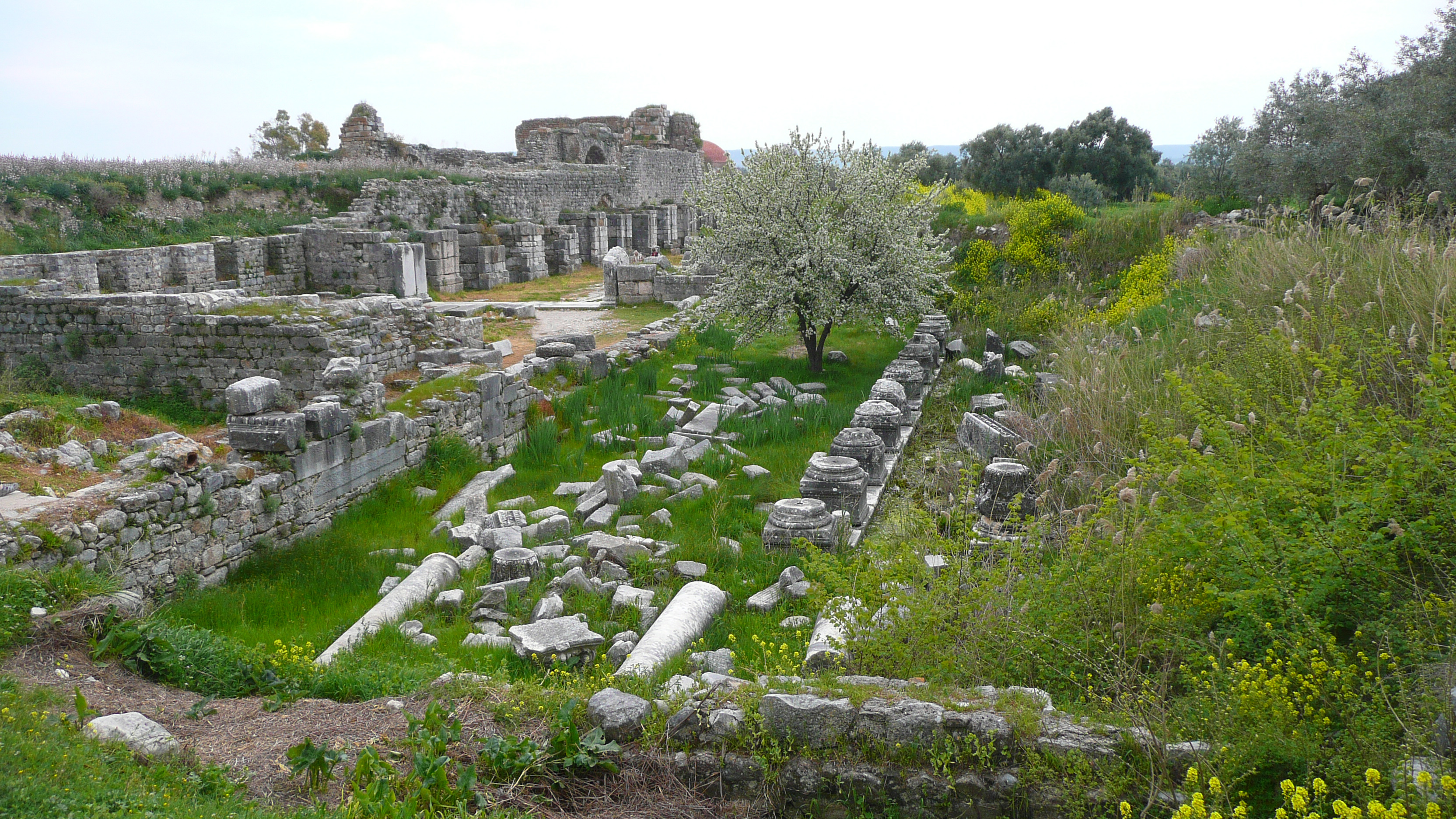 Baths of Faustina, Milet, Turkey